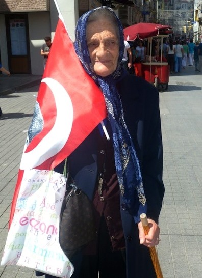 Old lady with Turkish flag on Taksim Square.